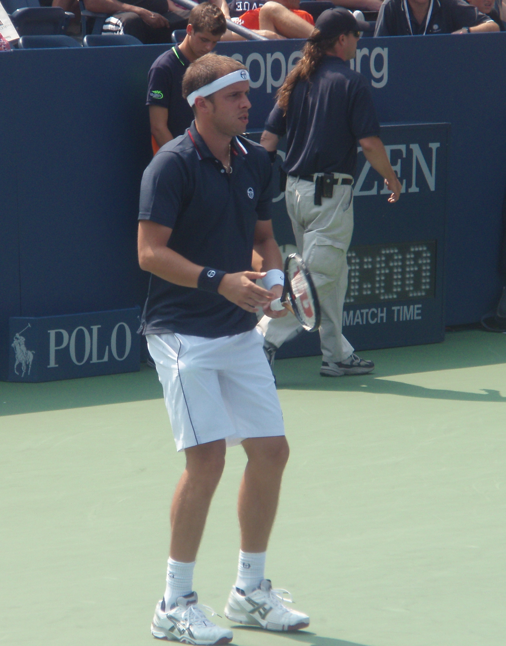 Gilles Muller US Open 2011